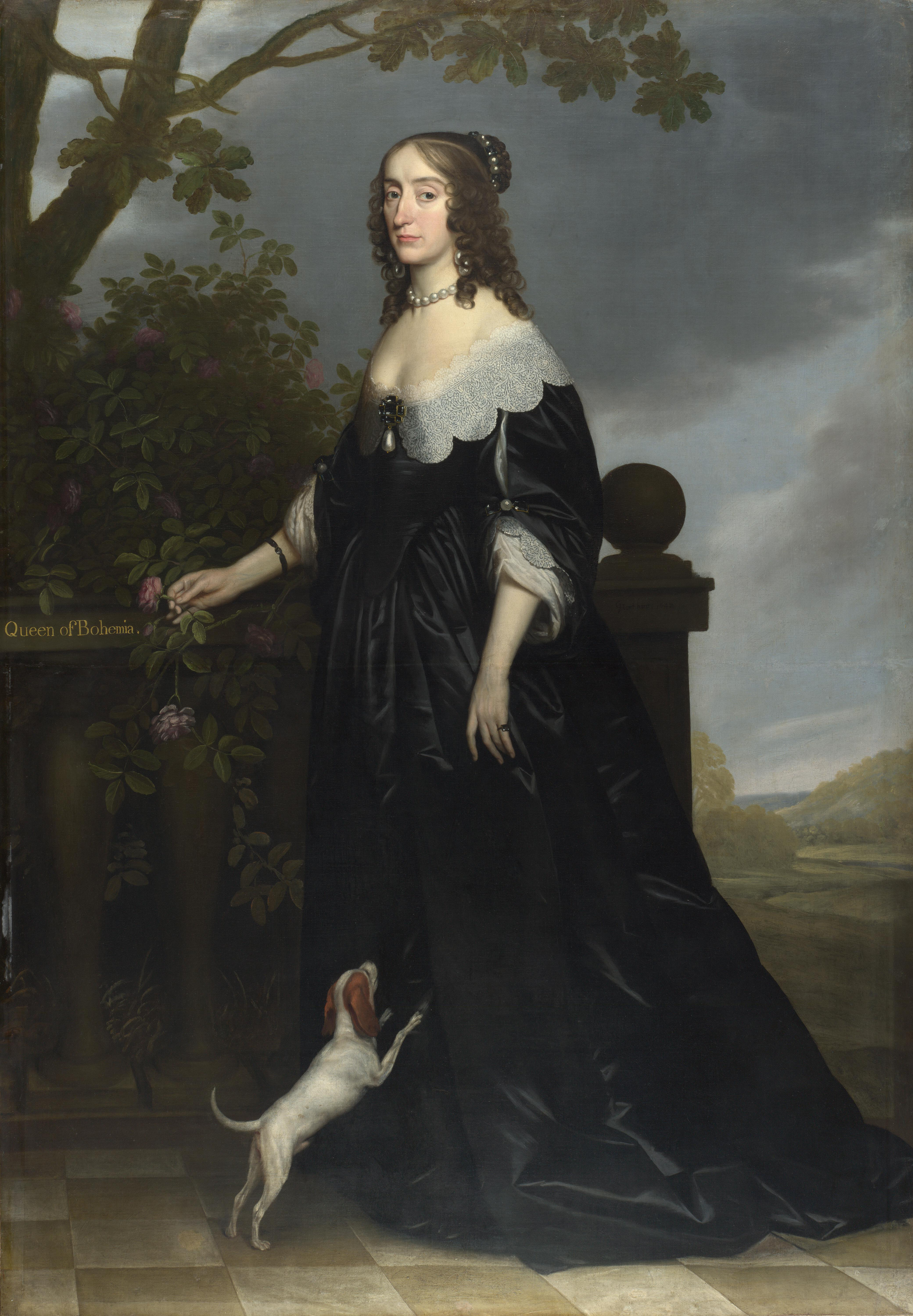 Elizabeth Stuart (1596 - 1662), known as the 'Winter Queen', was the eldest daughter of James I of England. She married Frederick, the Elector of the Palatinate, in 1613. He accepted the Bohemian crown in 1619, and was expelled from Bohemia in the following year. They lived in exile in Holland from 1621 onwards. She returned to England in 1661, and stayed in the London house of the 1st Earl Craven. In the following year she moved into Leicester House in Leicester Square where she died a few weeks later on 13 February. The picture was painted during the Queen's exile in Holland, ten years after she had been widowed, and may have been commissioned to mark this anniversary. She is shown as a grieving widow, wearing black with very few pieces of jewellery, notably the pearl earrings which had been given to her by her husband. She holds a stem in her hand on which there are two roses, one healthy and one wilted, a symbol of her widowed state along with the black ribbon on her arm. The dog can be interpreted as a symbol of fidelity.